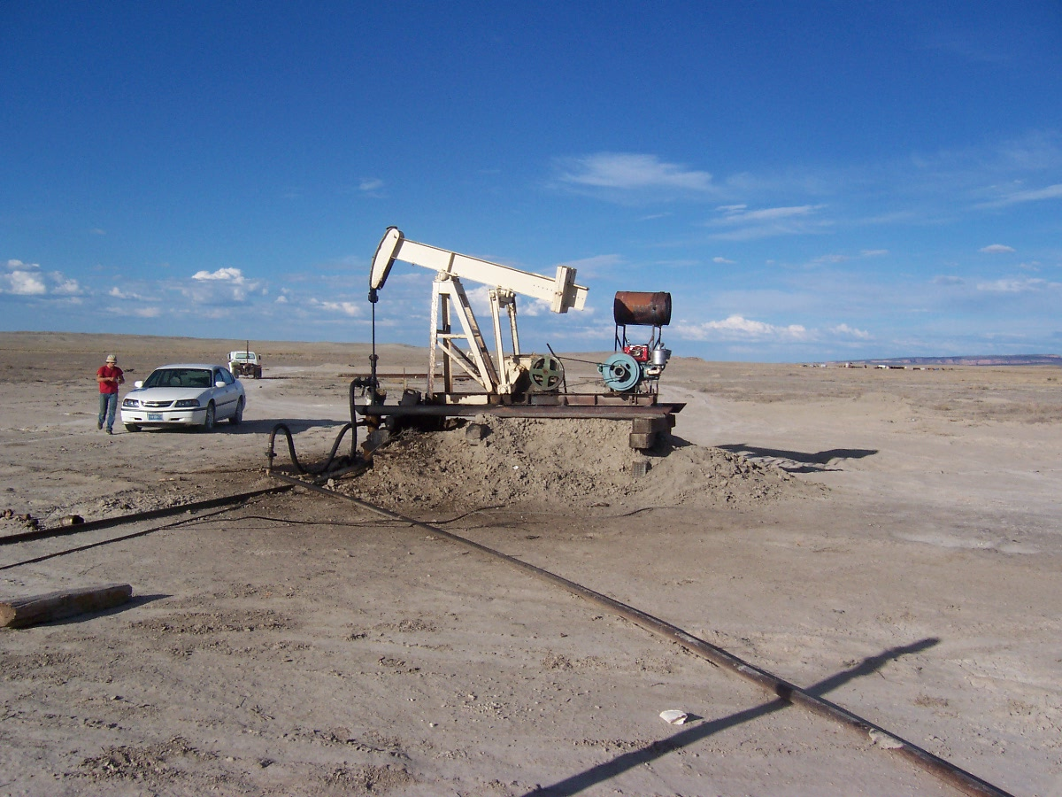 Ahmad Tariq, Cisco Oil Well